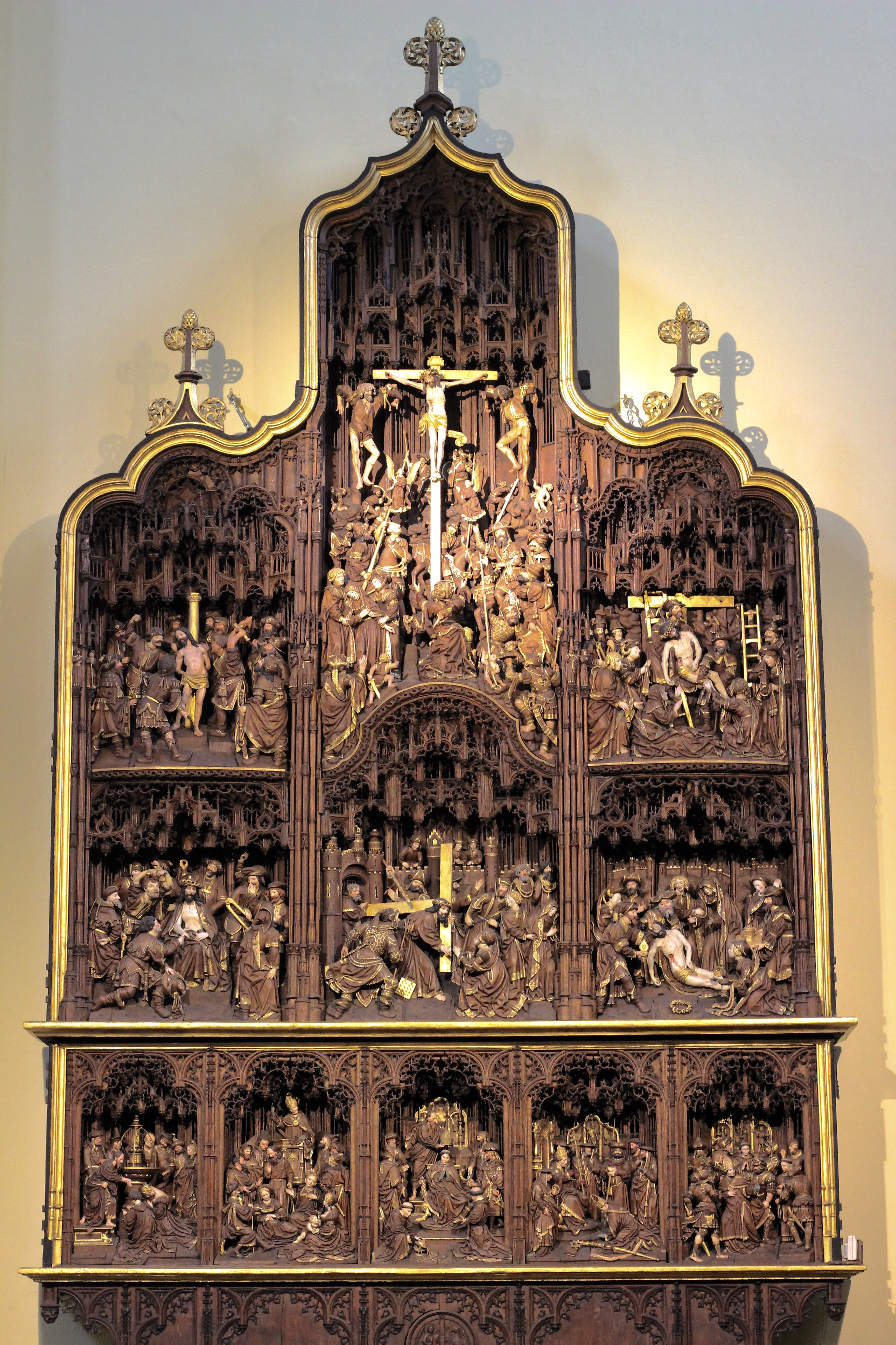 50° 38′ 34.57″ N, 5° 34′ 28.51″ E